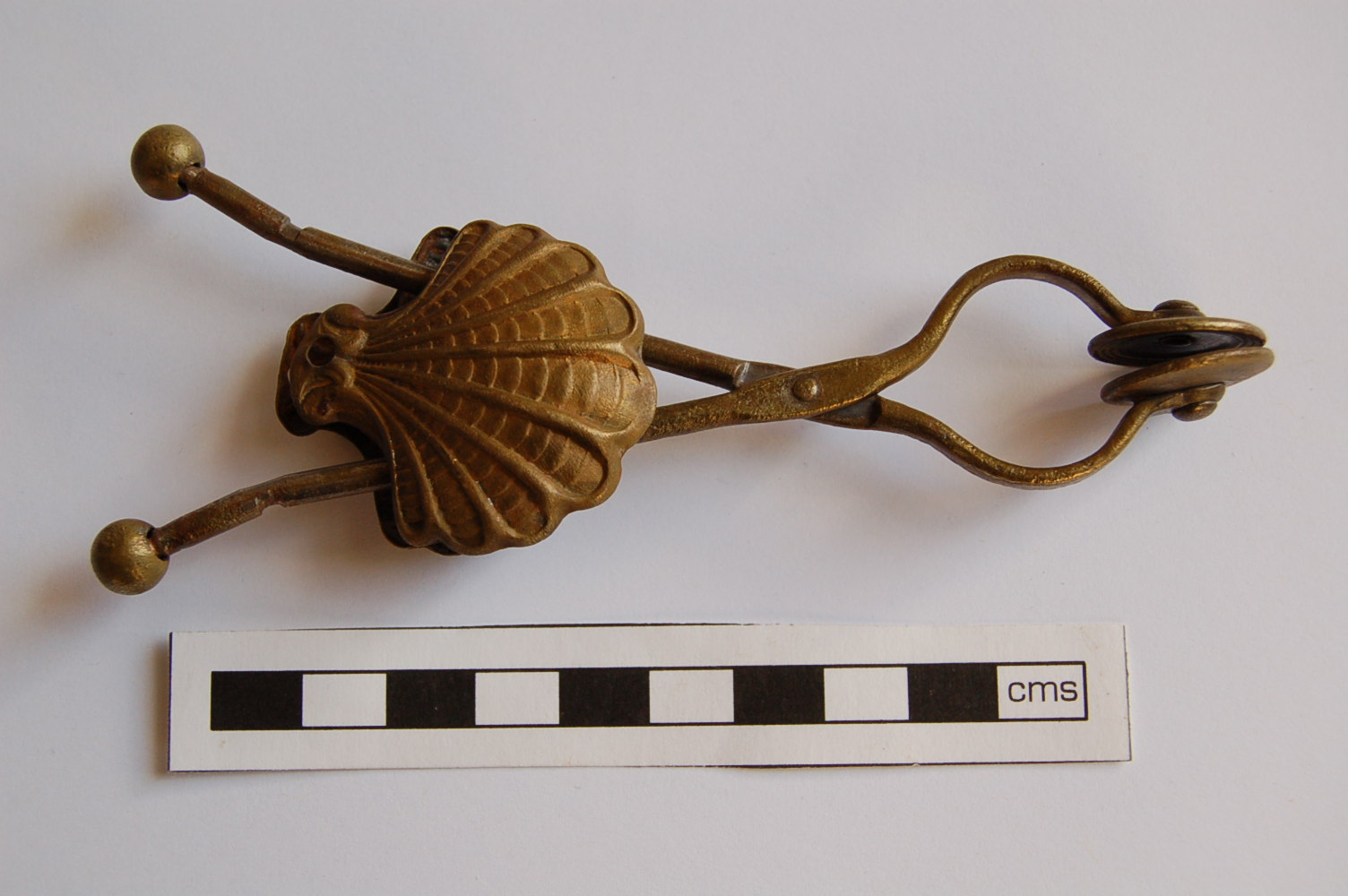 Victorian dress lifter. Dress lifters were used to prevent long Victorian dresses from trailing in the mud. The two circular discs would be placed around the hem of the skirt, and could be locked tight by the device at the top, which is decorated in the shape of a seashell. A cord was attached to the waist and threaded through the holes of the locking device. This meant that once the lifter had been attached, the skirt could be hoisted up or down without the need to bend or use hands to lift the dress.